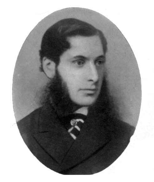 John Gould Veitch (1839-1870), Horticulurist